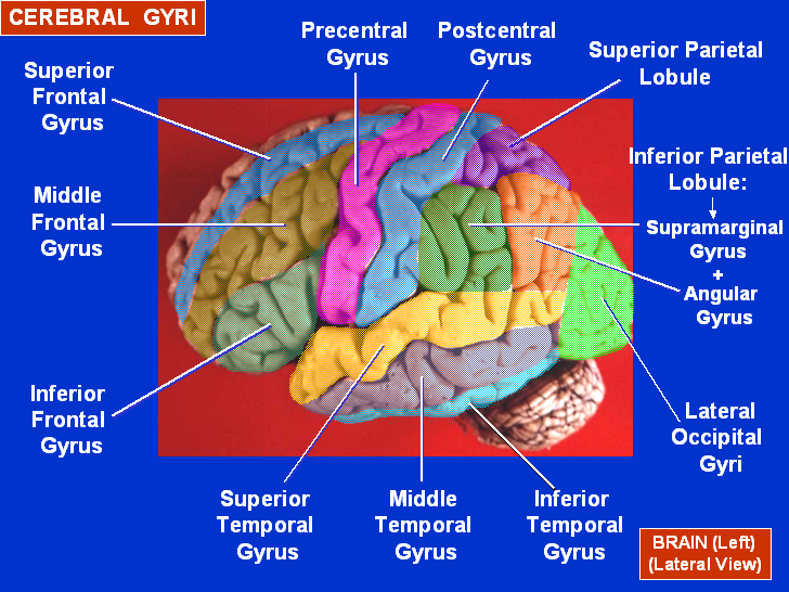 Map of Gryi of human left hemisphere.